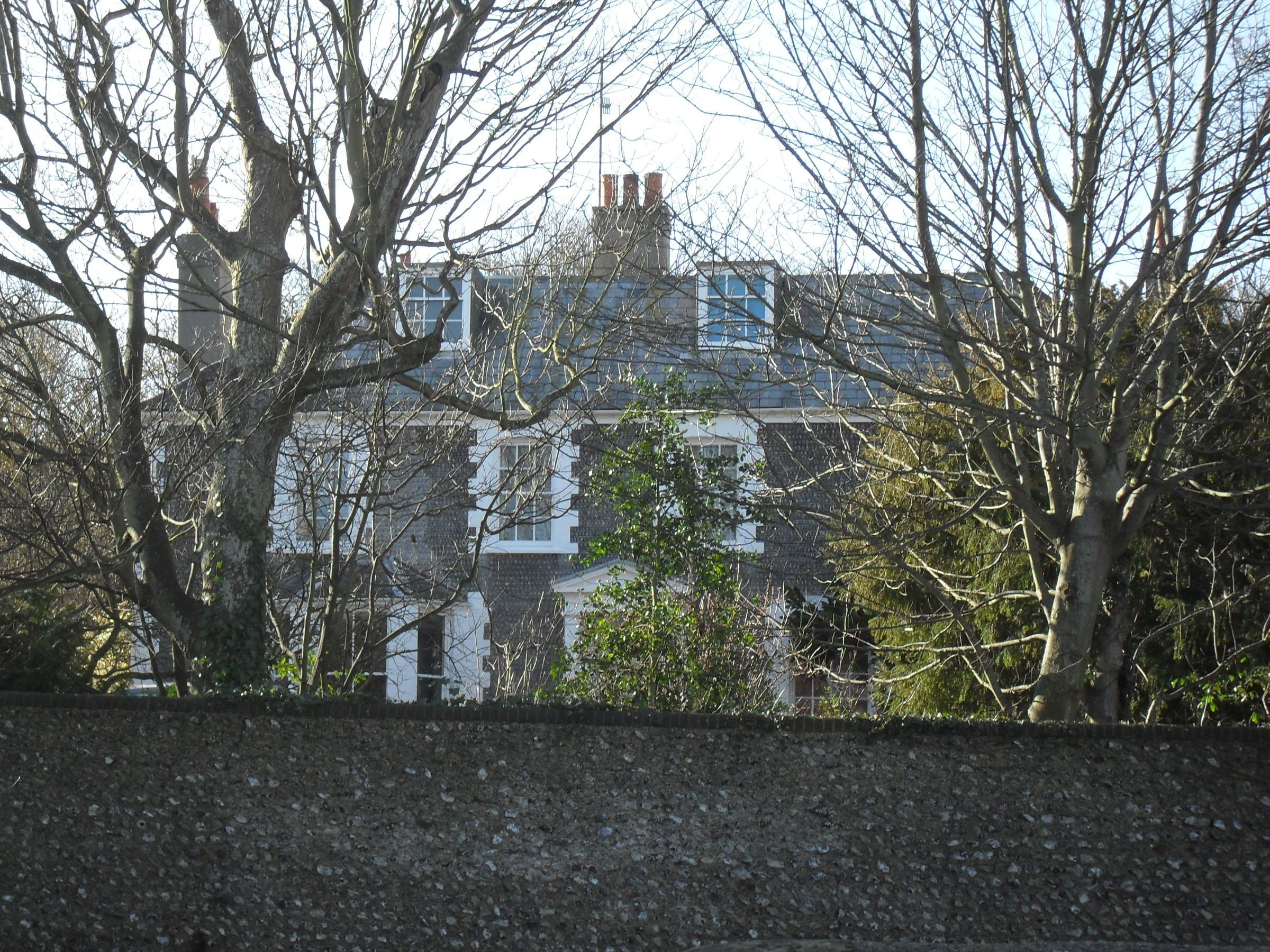 Ovingdean Rectory, Greenways, Ovingdean, City of Brighton and Hove, England. Built in 1807. Listed at Grade II* by English Heritage (IoE Code 480795)